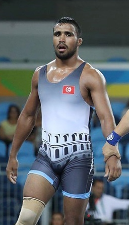 2016 Summer Olympics, Men's Freestile Wrestling 86 kg